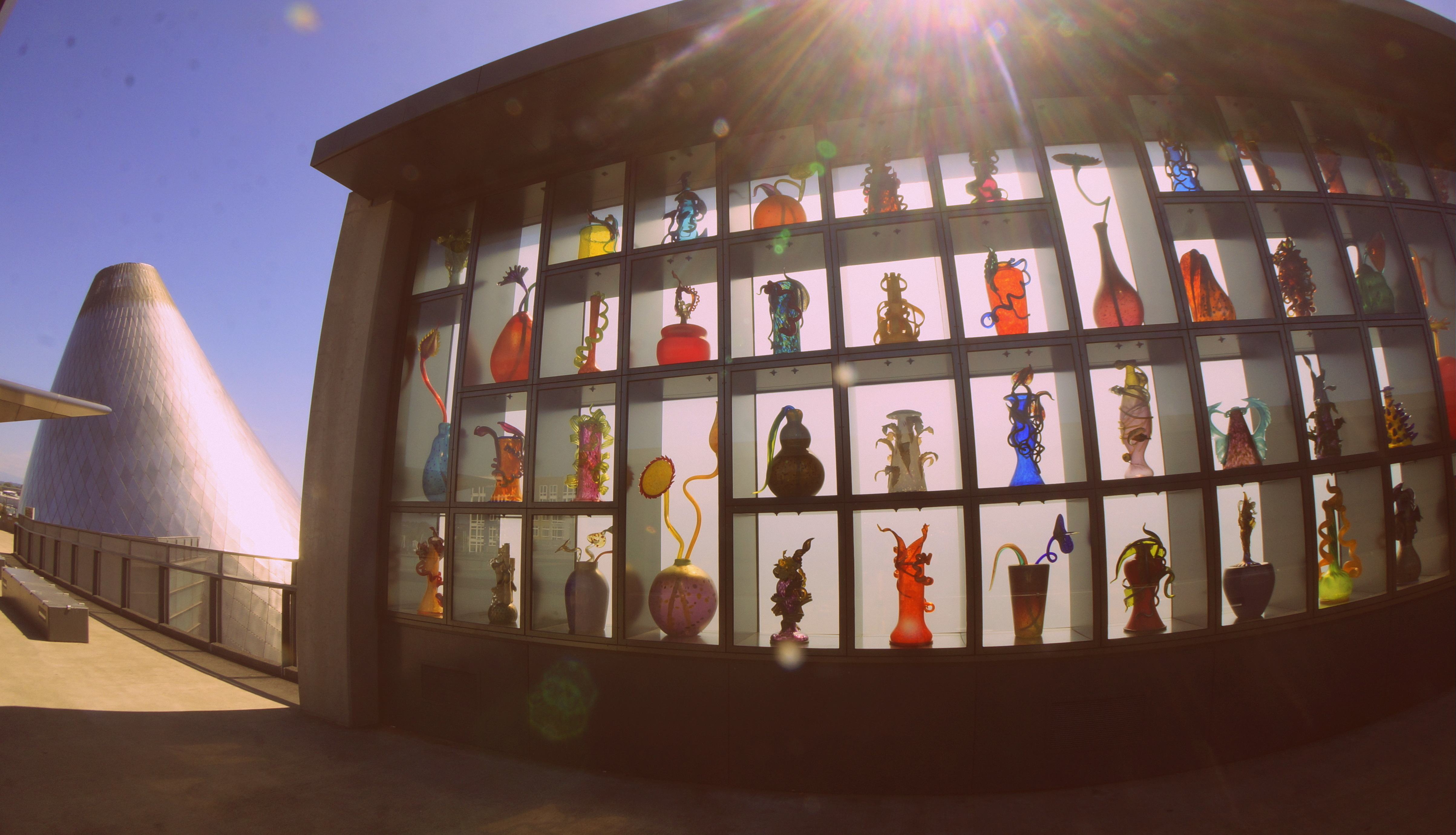 Dale Chihuly art that links the Museum of Glass to downtown Tacoma.